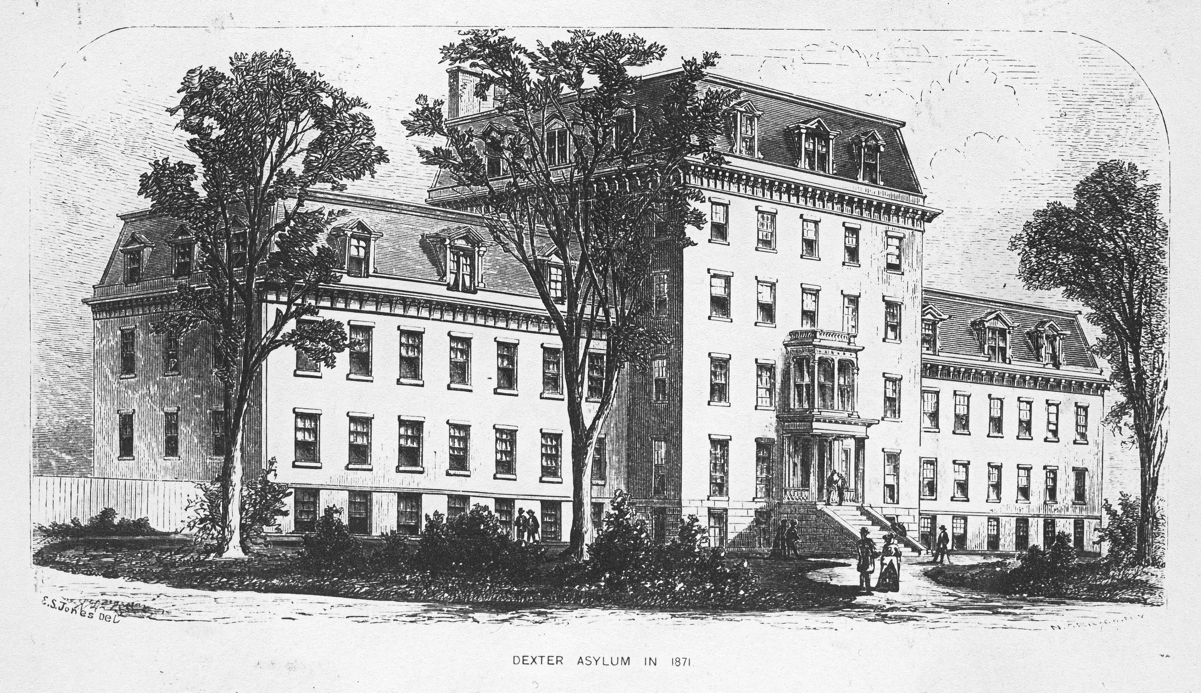 Dexter Asylum, Providence Rhode Island. 1871 engraving